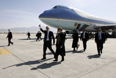 President George W. Bush gives the thumbs-up after Air Force One landed at Bagram Air Base near Kabul, Afghanistan Wednesday, March 1, 2006. The five-hour surprise visit included a meeting with Afghan President Karzai, a ceremonial ribbon-cutting at the U.S. Embassy, and a visit to the troops at Bagram.